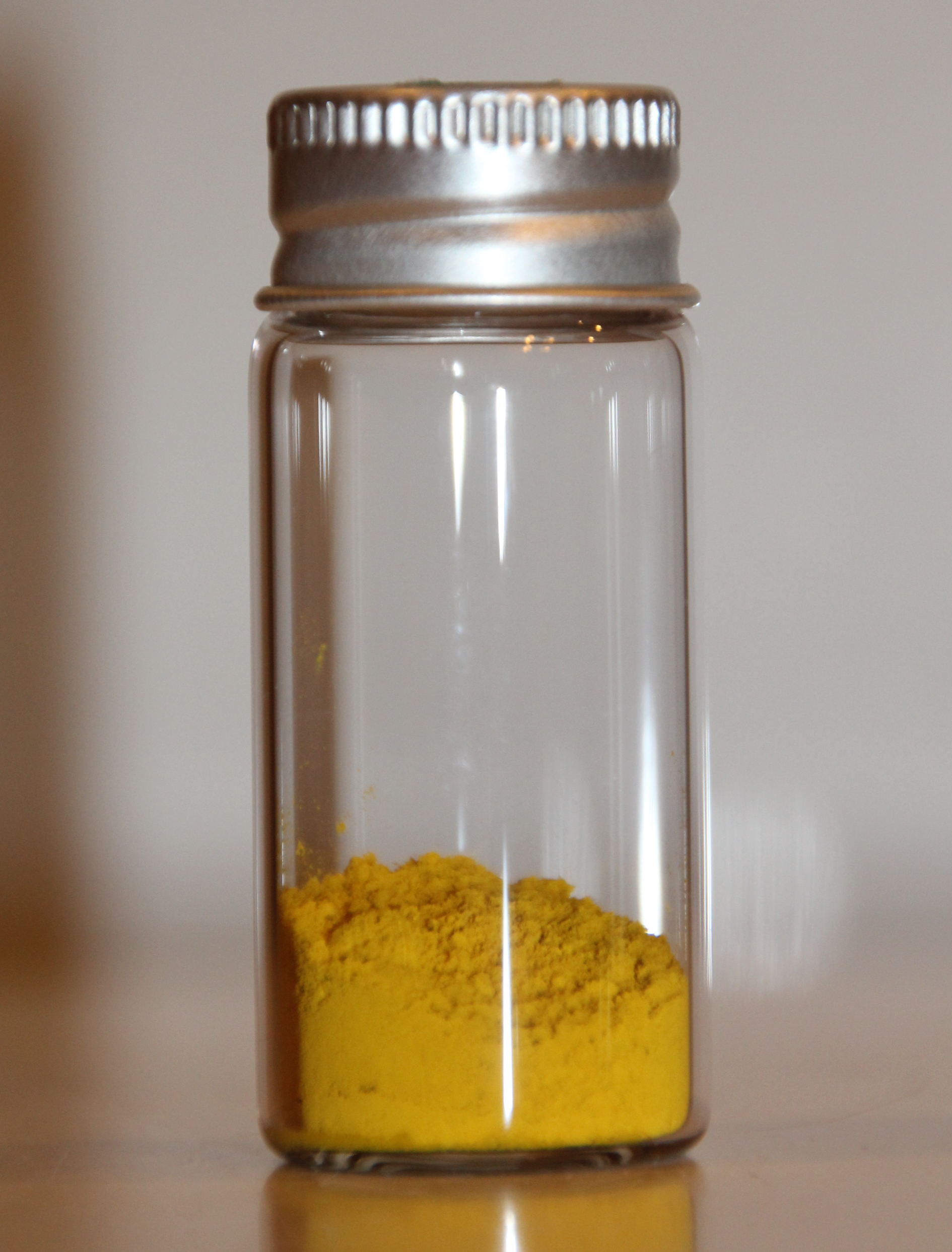 Sample of Auramine O